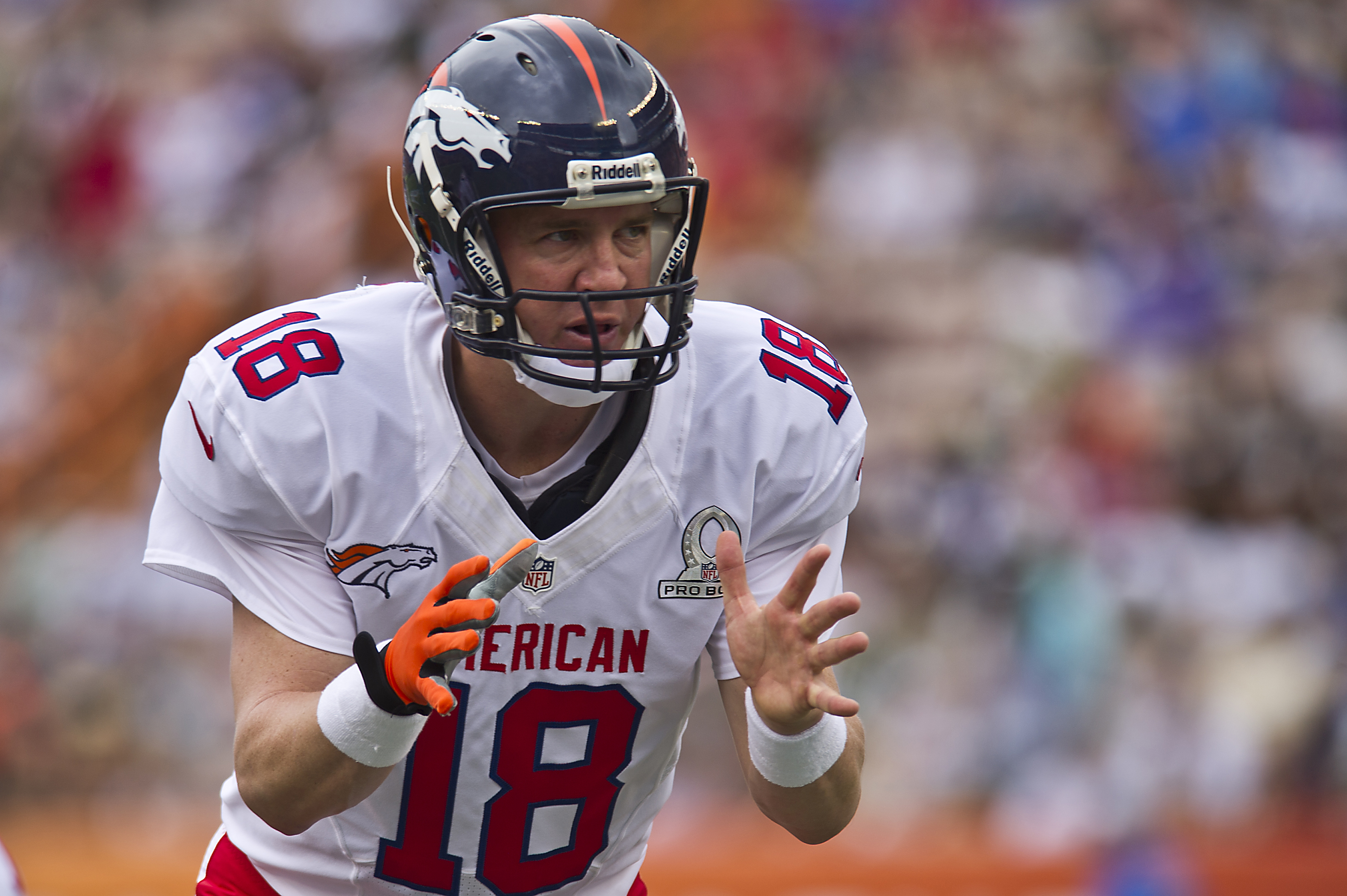 Denver Broncos quarterback Peyton Manning call a play at the line during the first quarter of the 2013 National Football League Pro Bowl, Jan. 27., at Aloha Stadium in Honolulu. Several hundred service members assigned to bases throughout Hawaii were honored during games opening ceremonies and the halftime celebration. (Department of Defense photo by U.S. Air Force Tech. Sgt. Michael R. Holzworth/Released)